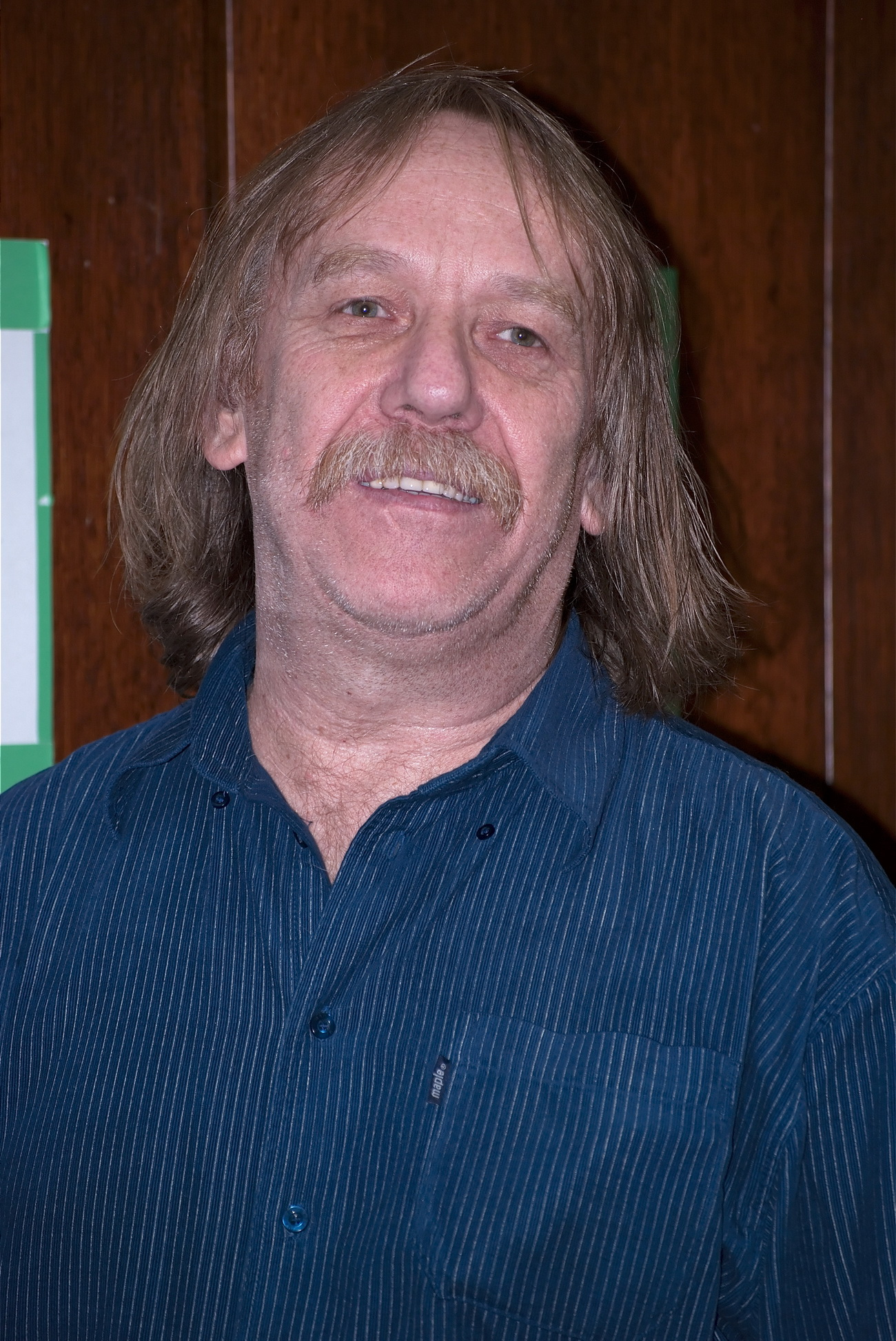 Jaromir Nohavica in Brno March 9th 2010